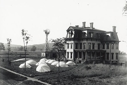 Carl Myers "balloon farm" of Frankfort, New York